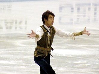 Kensuke Nakaniwa at the 2003 NHK Trophy.